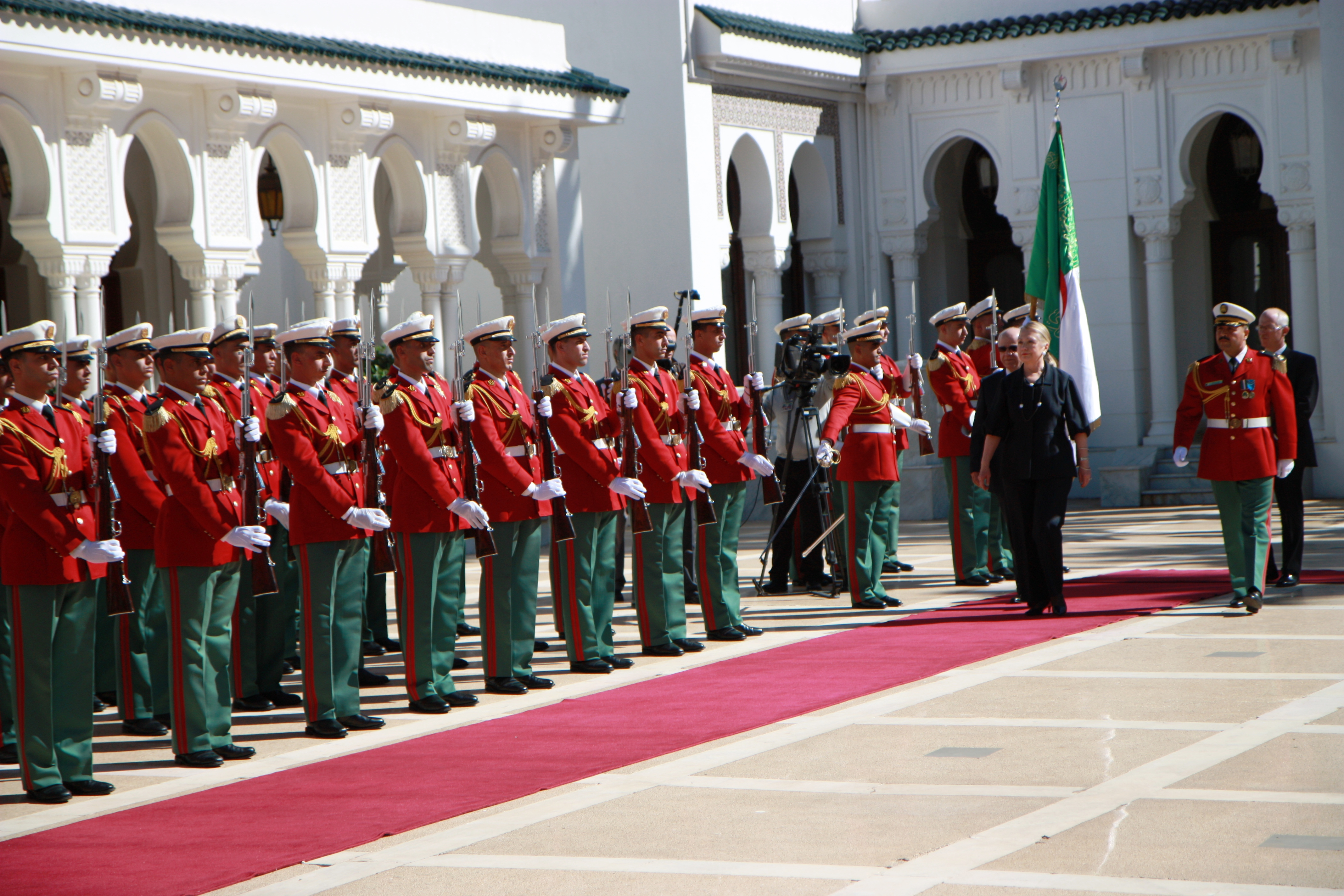 U.S. Secretary of State Hillary Rodham Clinton prepares to meet with Algerian President Abdelaziz Bouteflika in Algiers, Algeria, October 29, 2012. [State Department photo/ Public Domain]